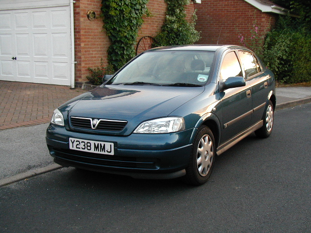 1998–2001 Vauxhall Astra 5-door hatchback, photographed in the United Kingdom.